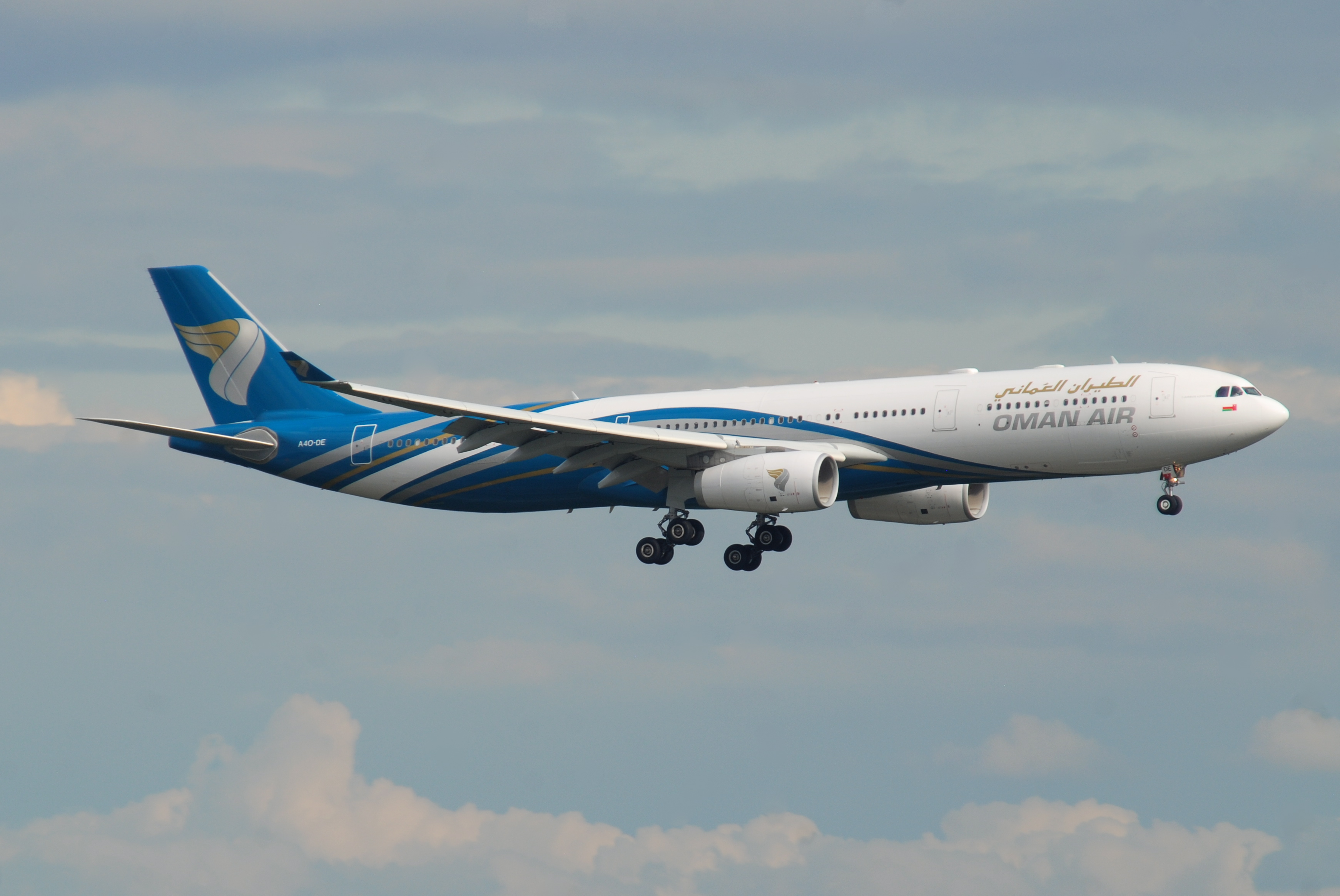 Oman Air Airbus A330-300; A4O-DE@FRA;08.08.2010/585ck